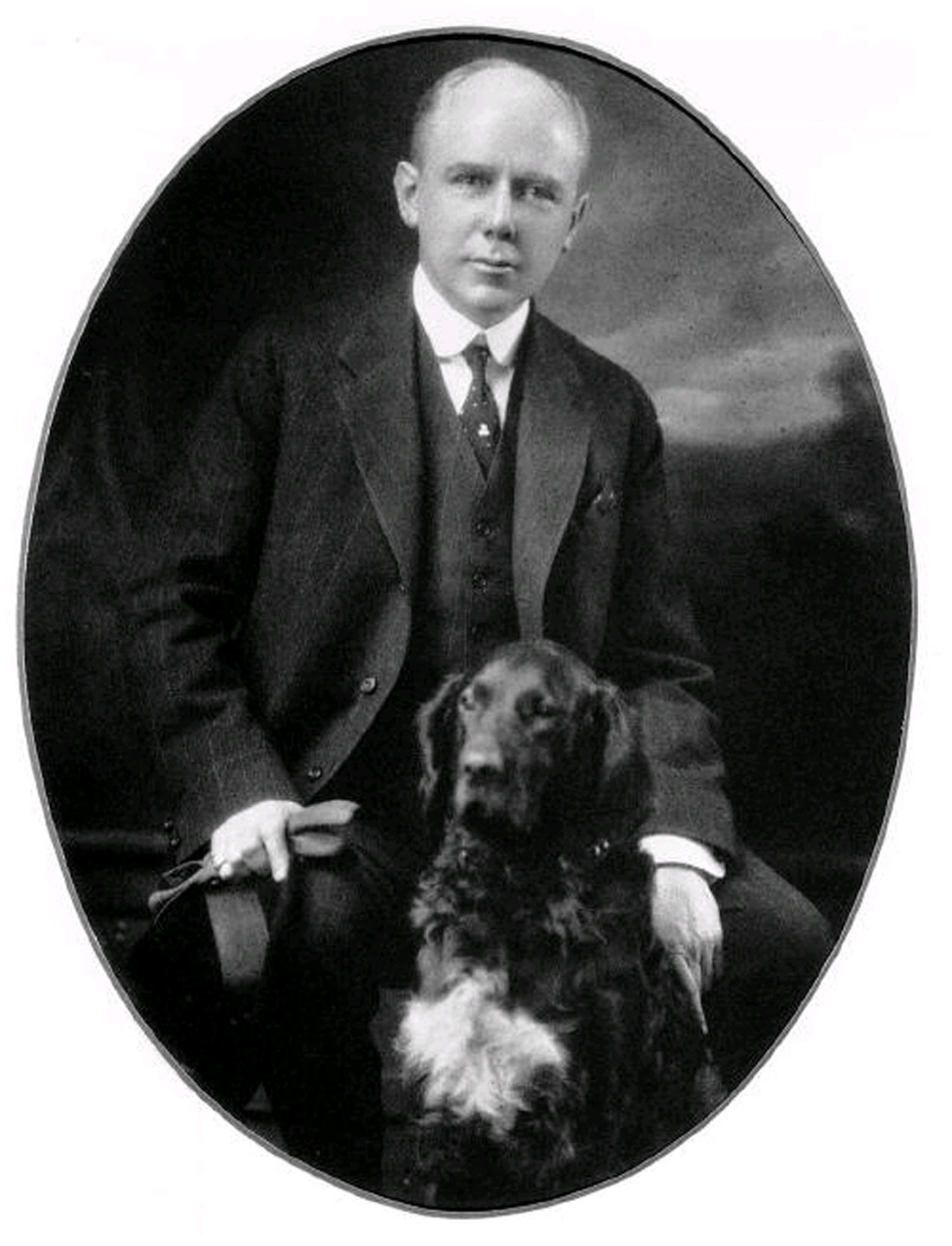 Maine Governor Percival Proctor Baxter with his Irish Setter Garry Owen.